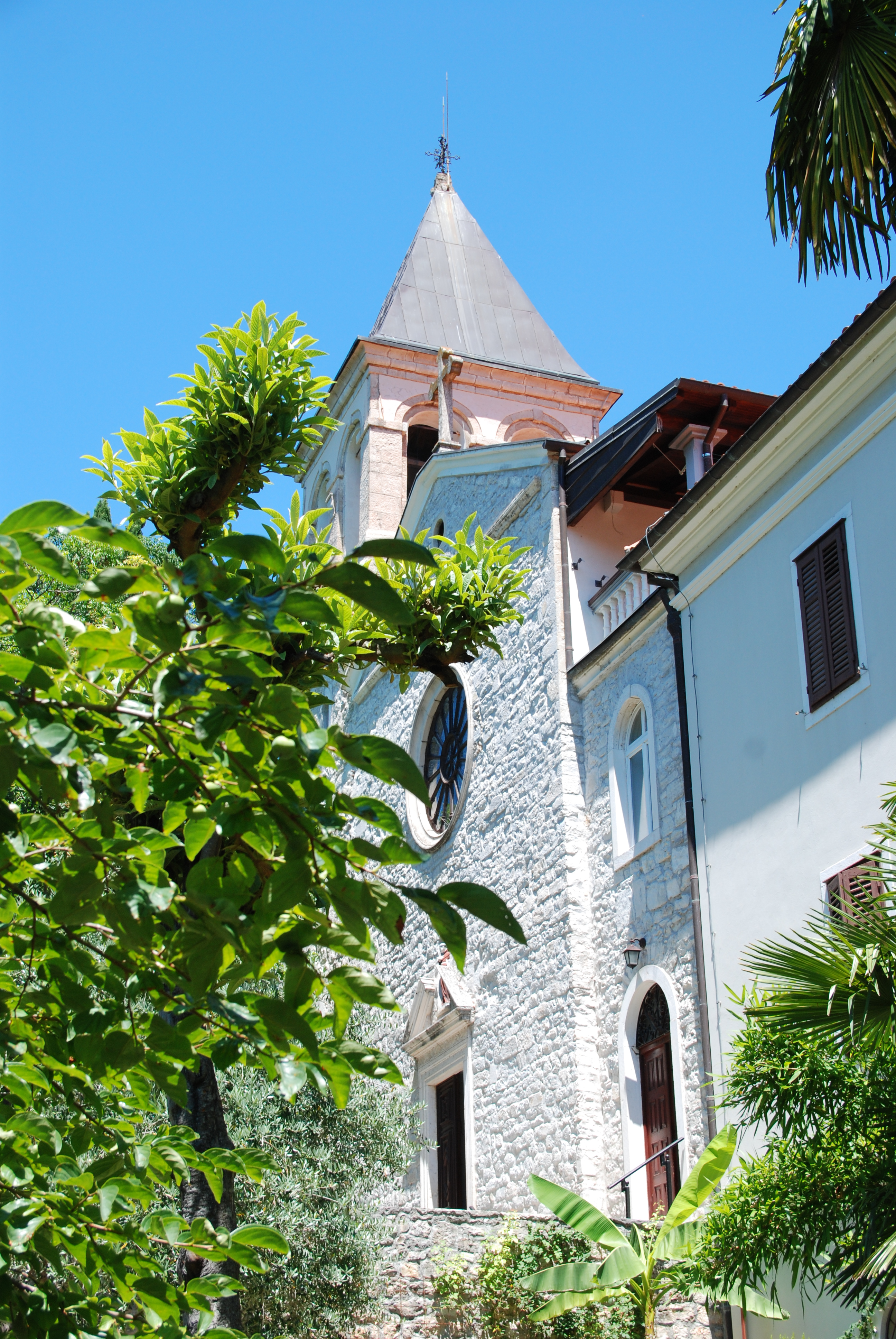 Visovac monastery, Croatia: the tower of the monastery's church